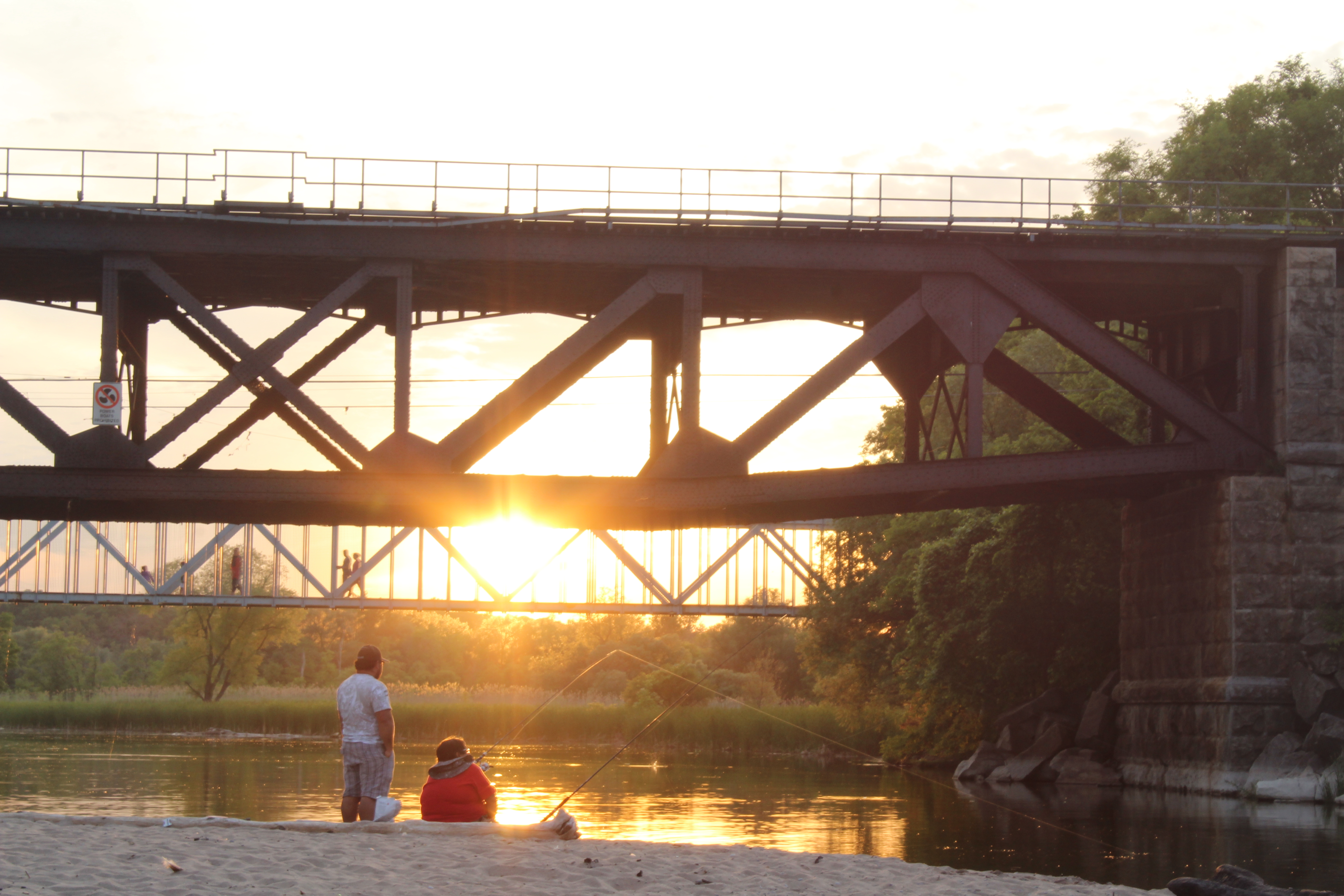 A sunset at Rouge Beach.